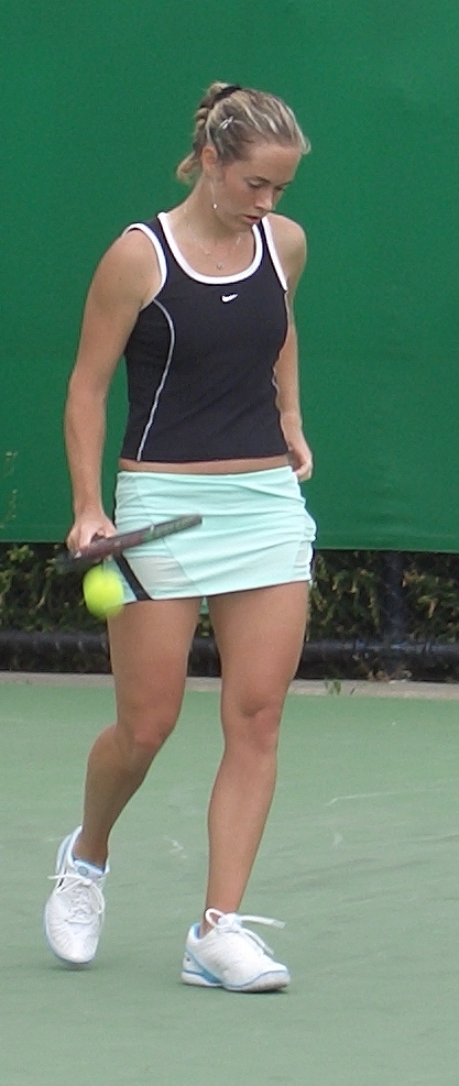 Klara Koukalova (AKA Klára Zakopalová, Klára Koukalová) at the 2006 Australian Open.